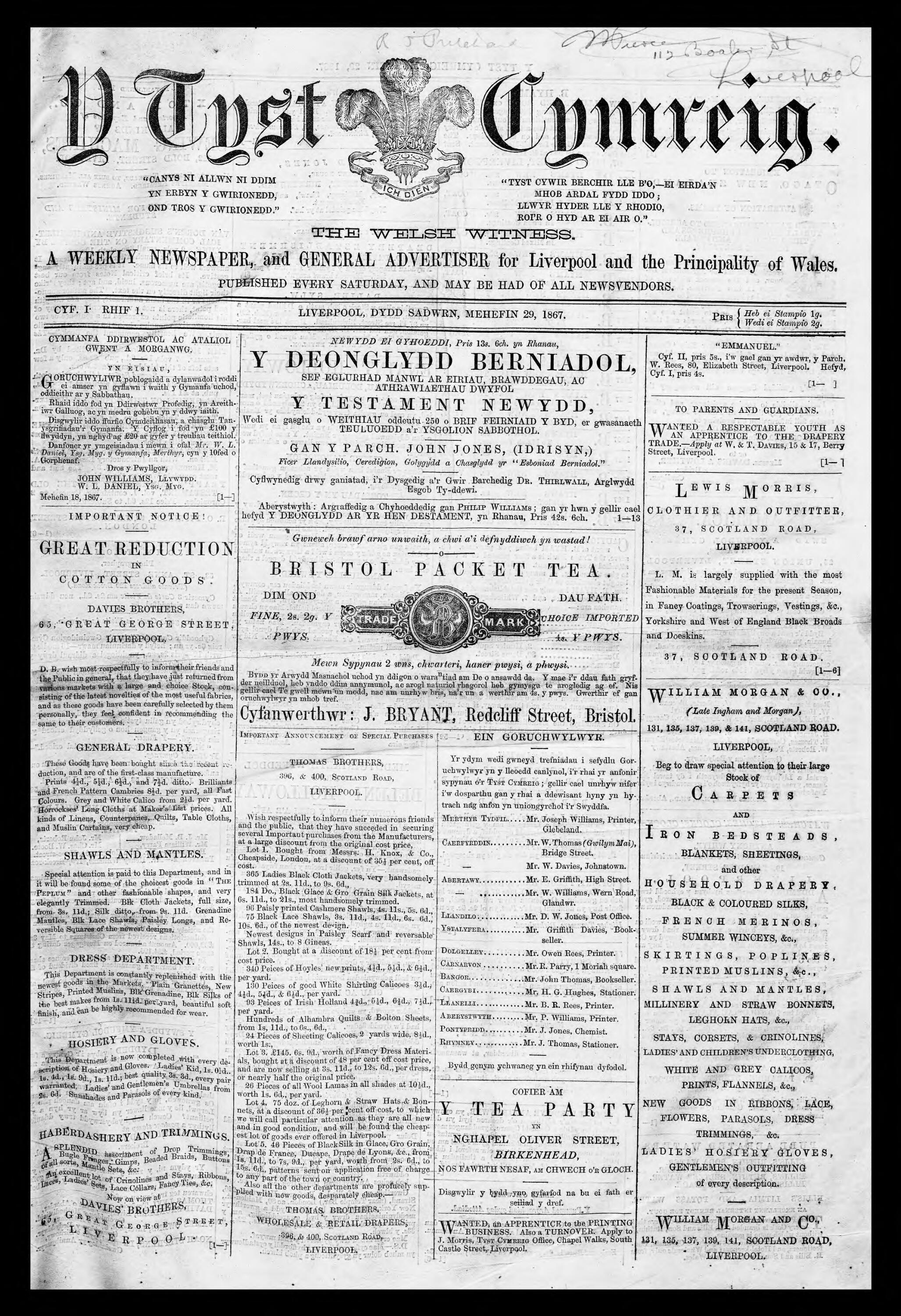 Front page of the earliest surviving copy of the Welsh newspaper Y Tyst CymreigCymraeg: Tudalen flaen y copi cynharaf sydd yn bodoli o'r papur newydd Cymraeg Y Tyst Cymreig